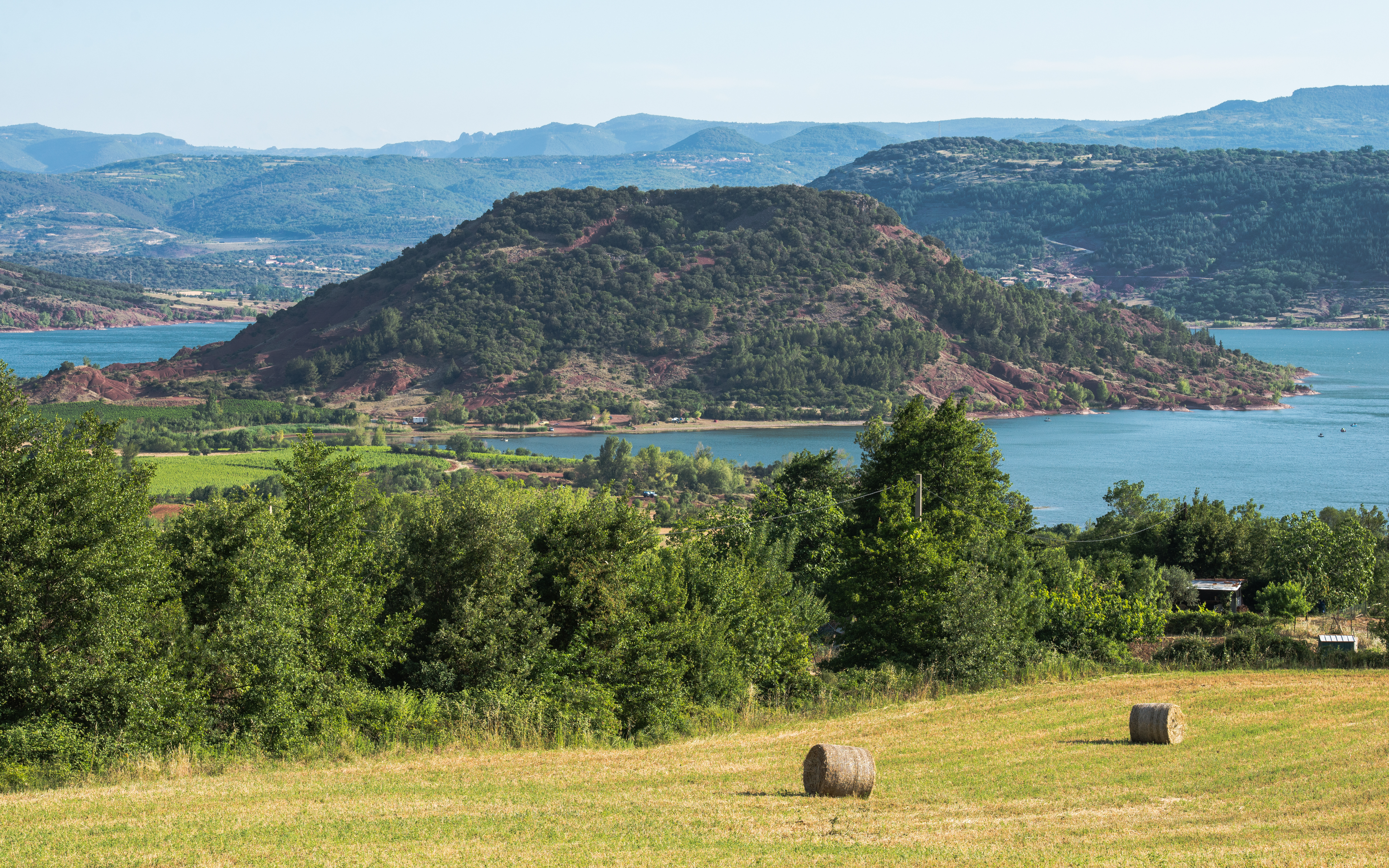 The Presque-isle of Rouens (253m) and the Salagou Lake ("Lac du Salagou") in the commune of Clermont-l'Hérault. The Salagou Lake is an artificial lake dating from the beginning of 1969. The hill has a red aspect because it is constituted by ruffes, a local name indicating the red lands formed by detrital sedimentary rocks. Photo taken from the South in the commune of Liausson. Hérault, France.